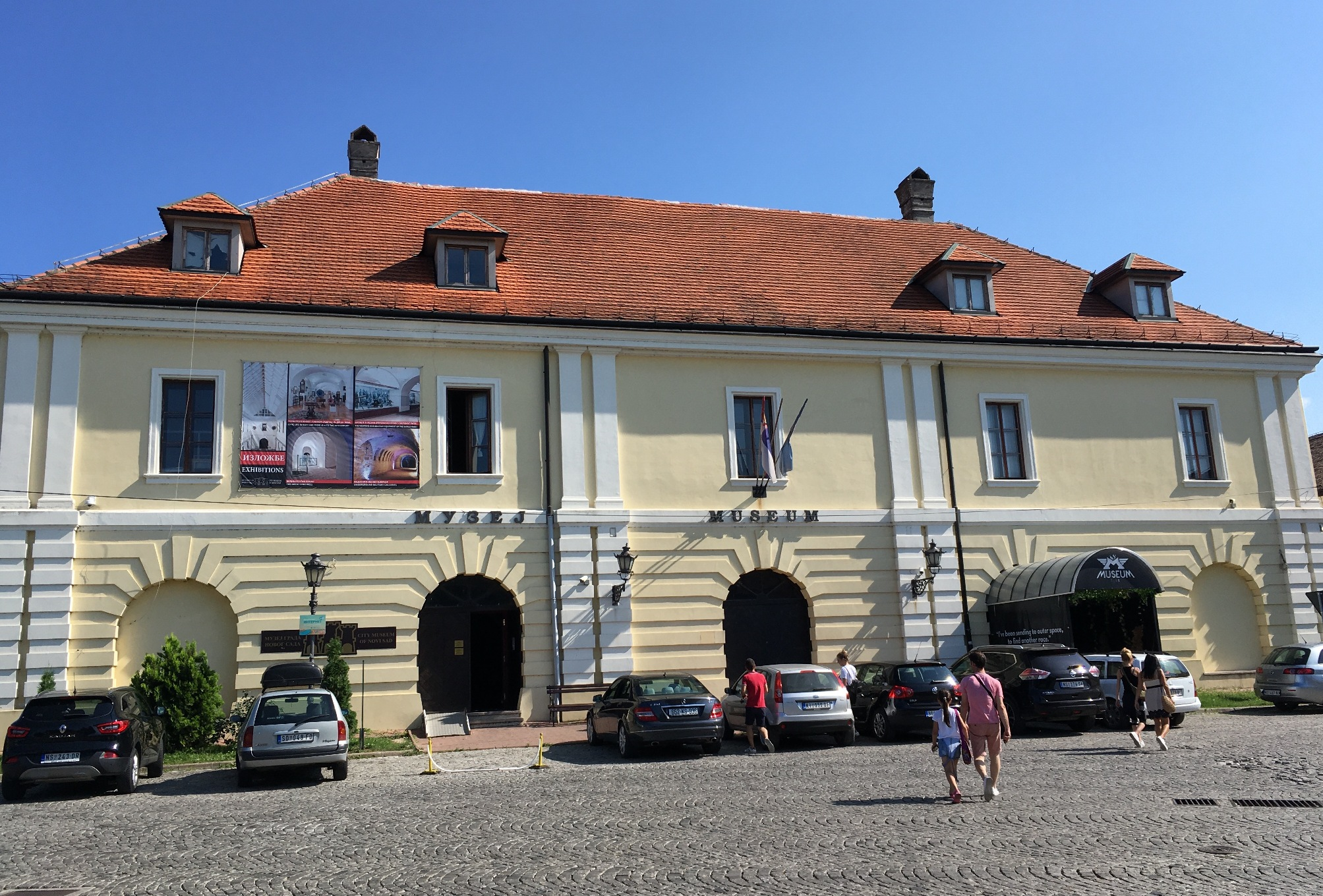 City museum in Petrovaradin, Novi Sad, Serbia